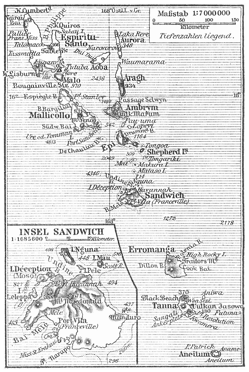 1905 map of the colonial New Hebrides, in the South Pacific Ocean. The present day independent nation of Vanuatu.